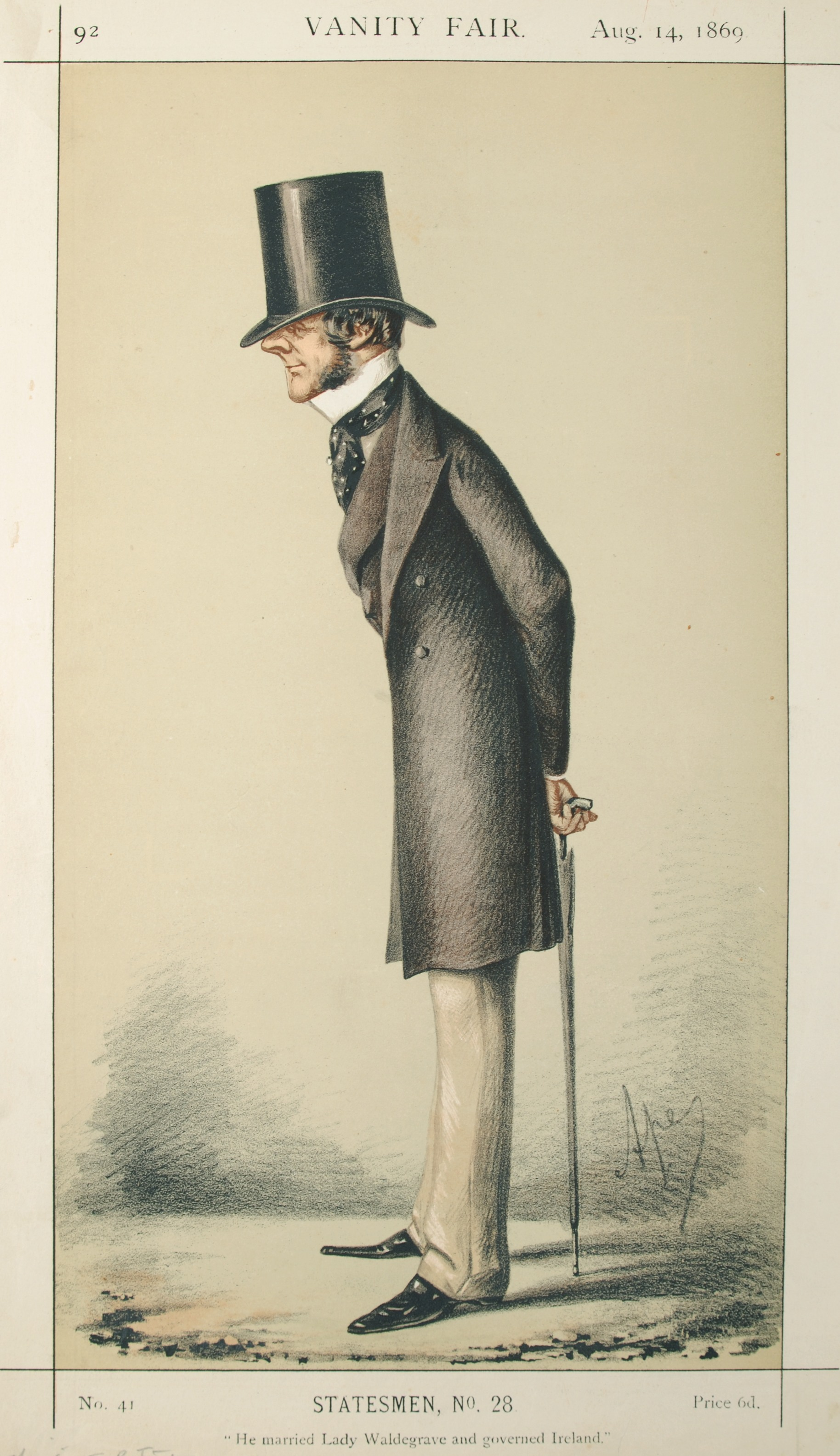 Statesmen No.28: Caricature of The Rt Hon Chichester Parkinson-Fortescue. Caption reads: "He married Lady Waldegrave and governed Ireland."